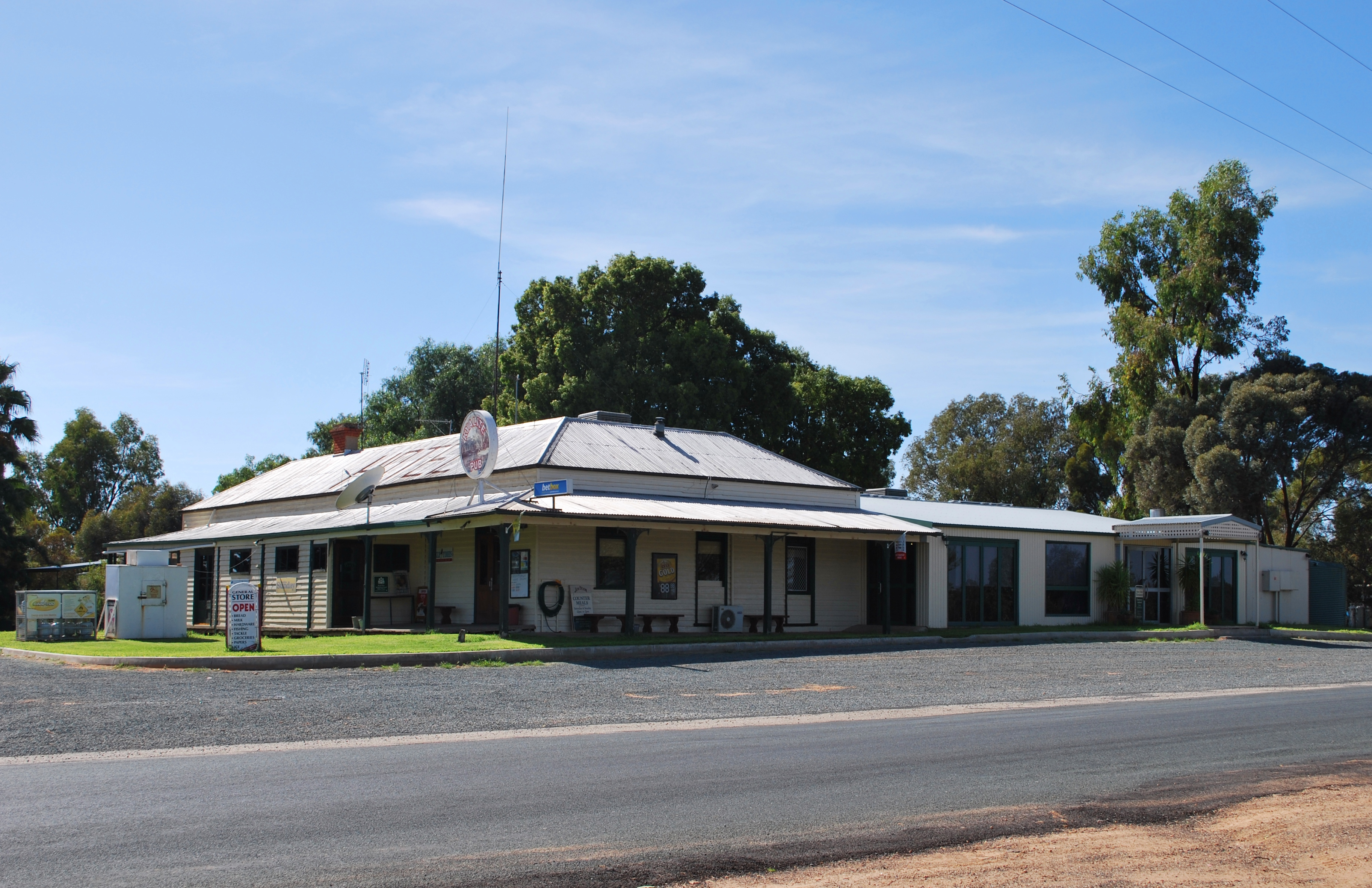 Kyalite Hotel (also known as the Wakool Hotel and the Kyalite Pub) at Kyalite, New South Wales